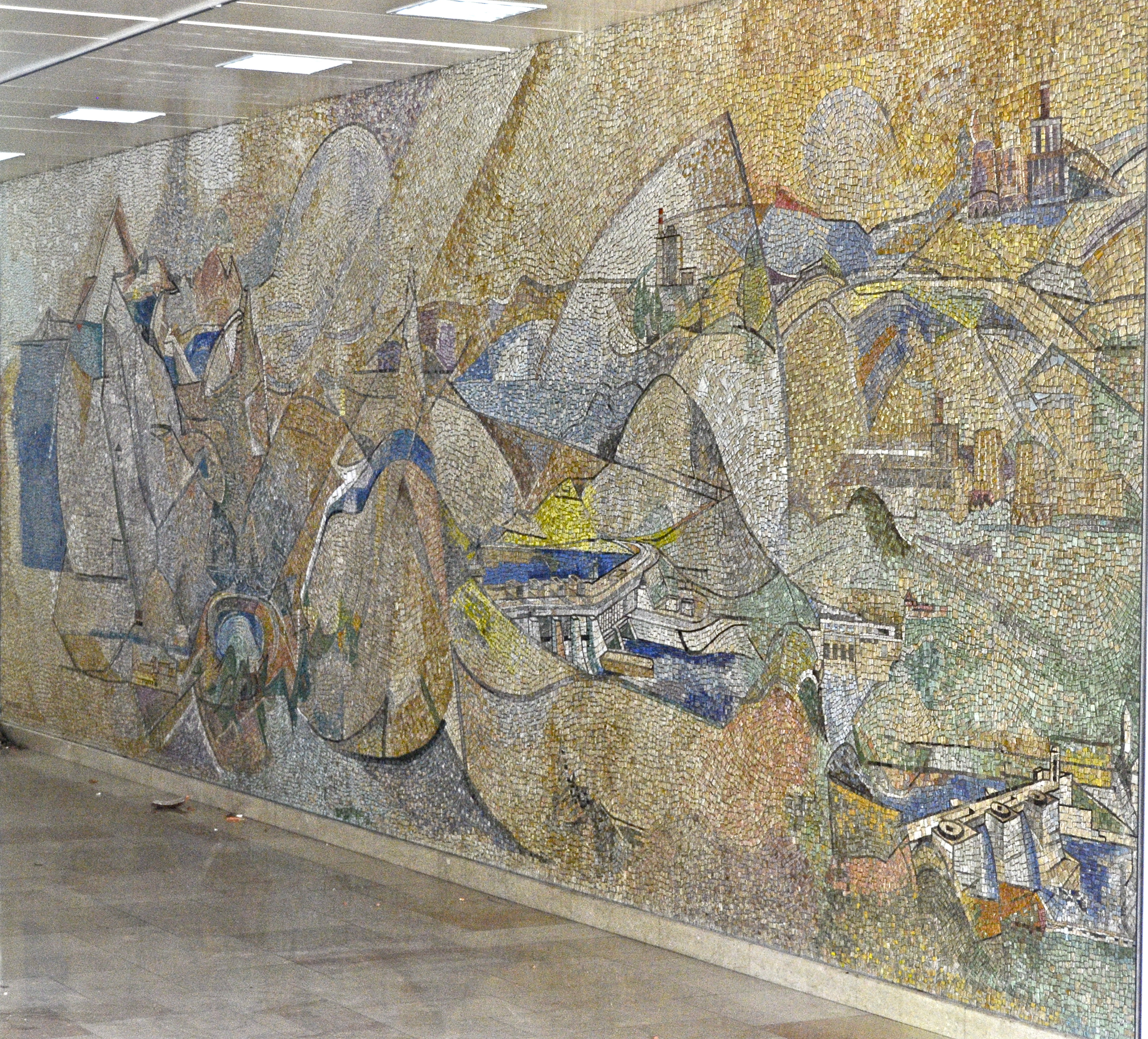 Mosaic wall by Anton Mahringer, Kohldorfer Strasse #98, 12th district «Sankt Martin», municipality Klagenfurt, Carinthia, Austria, EU